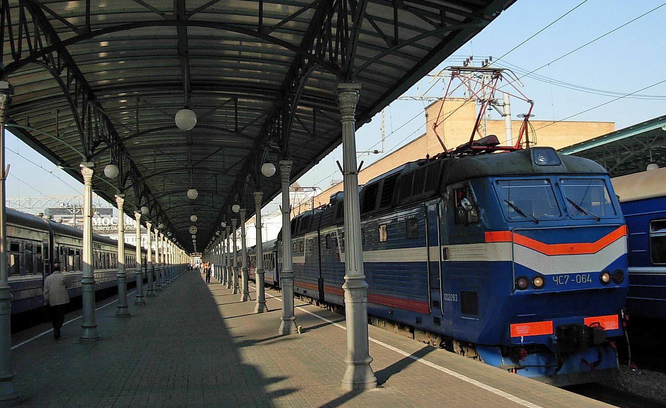 "Polonez" train from Moscow to Warsaw departing Beloruskij Vokzal